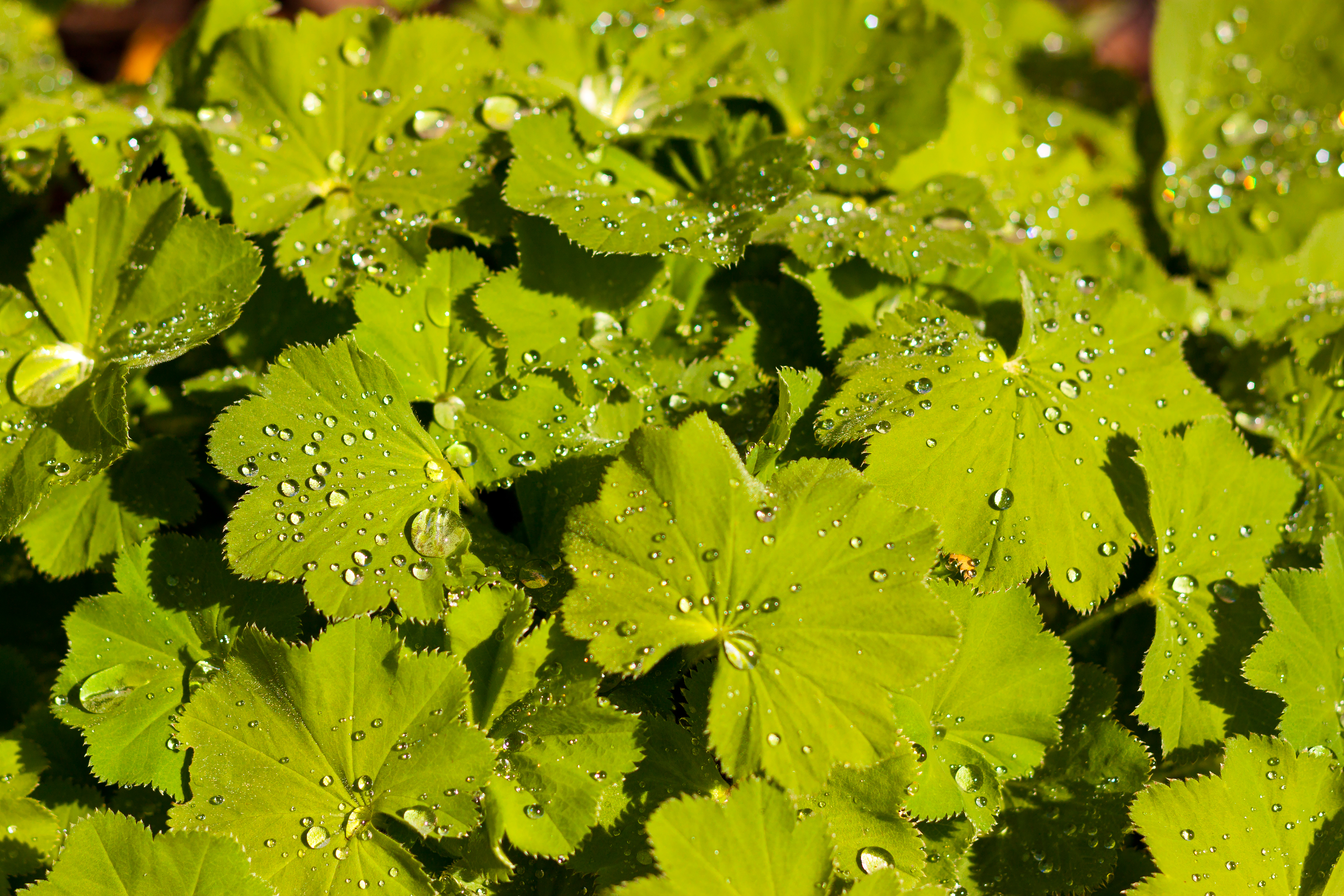 Raindrops on the leaves of a common lady's mantle (Alchemilla vulgaris).